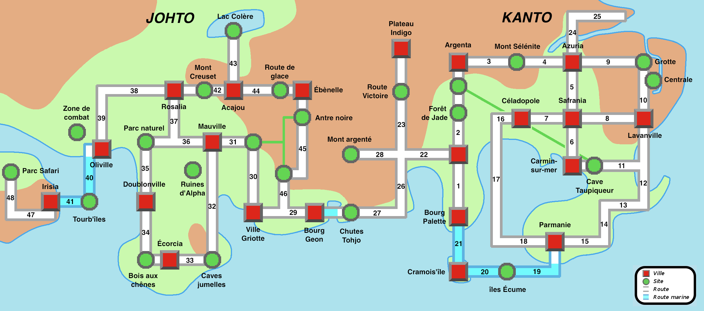 Map of the videogames Pokémon HeartGold & SoulSilver world. Drawn from File:Tojoh blank.png published in the public domain by Kyoww. Safari Zone and Battle Frontier added compared with File:Map Pokémon Gold & Silver FR.png.